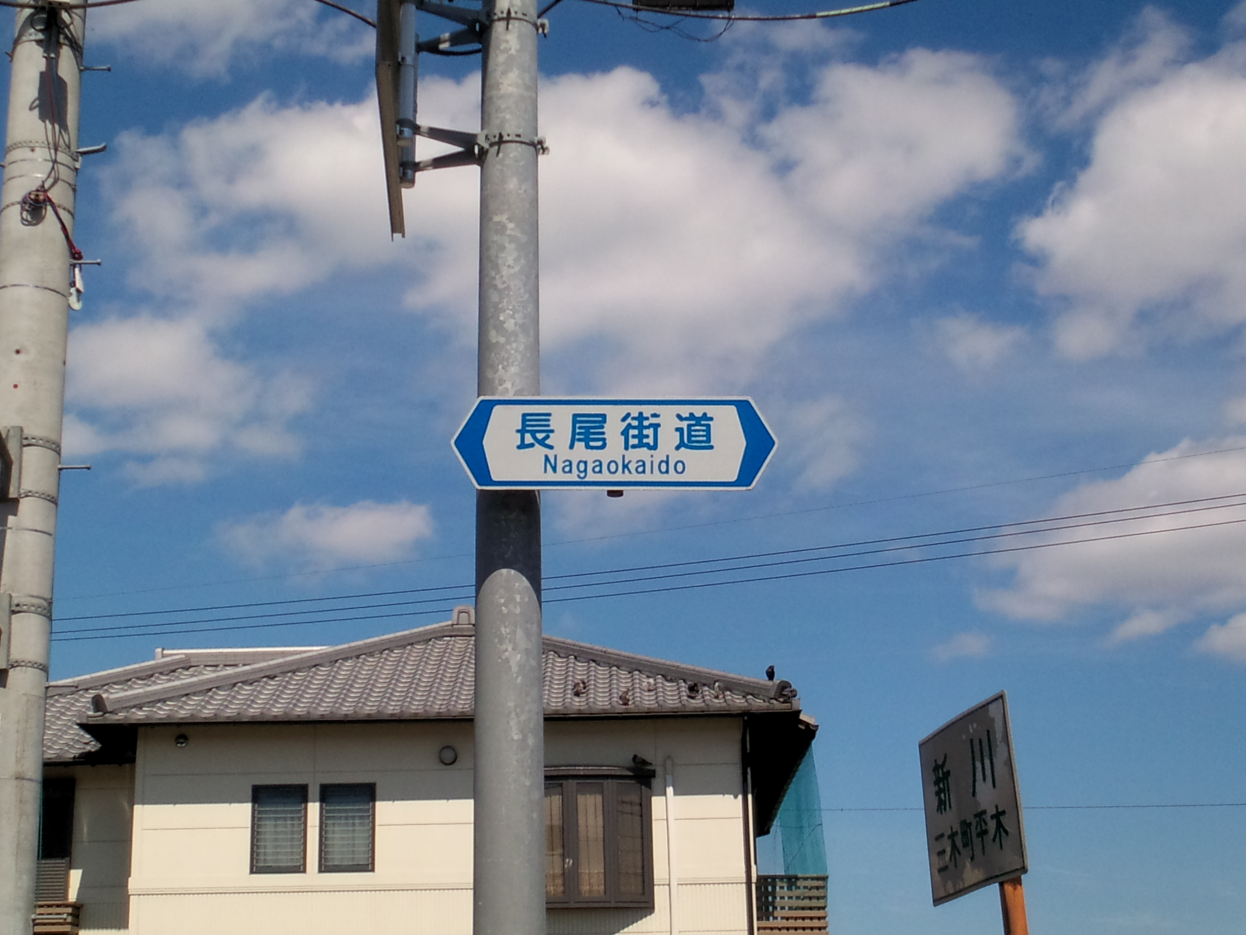 Road sign of Nagaokaido(119-B). at Hiragi, Miki-cho, Kita District, Kagawa Prefecture Japan. Shinkawa river west.